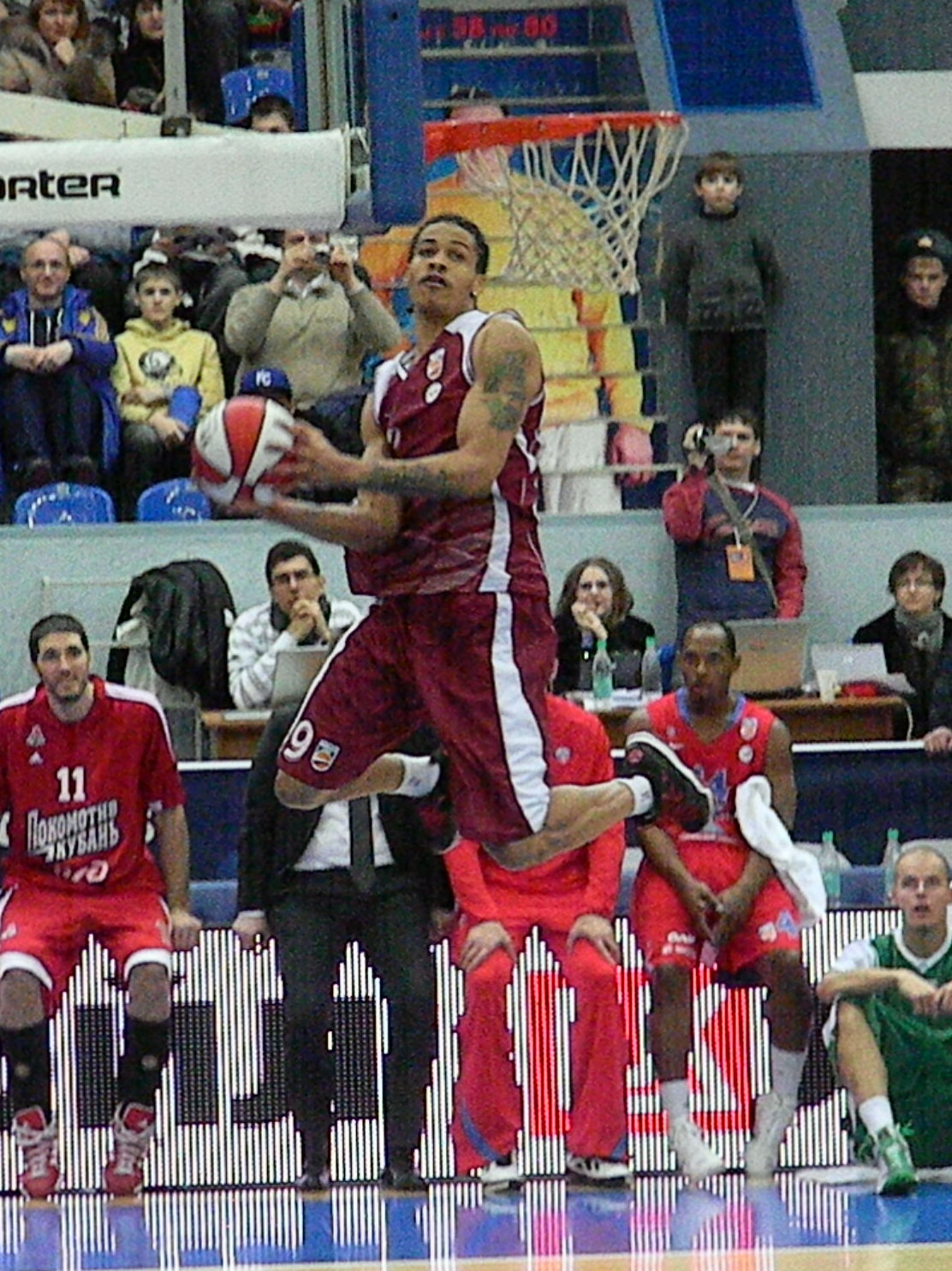 Slam-dunk by Gerald Green at all-star PBL game 2011